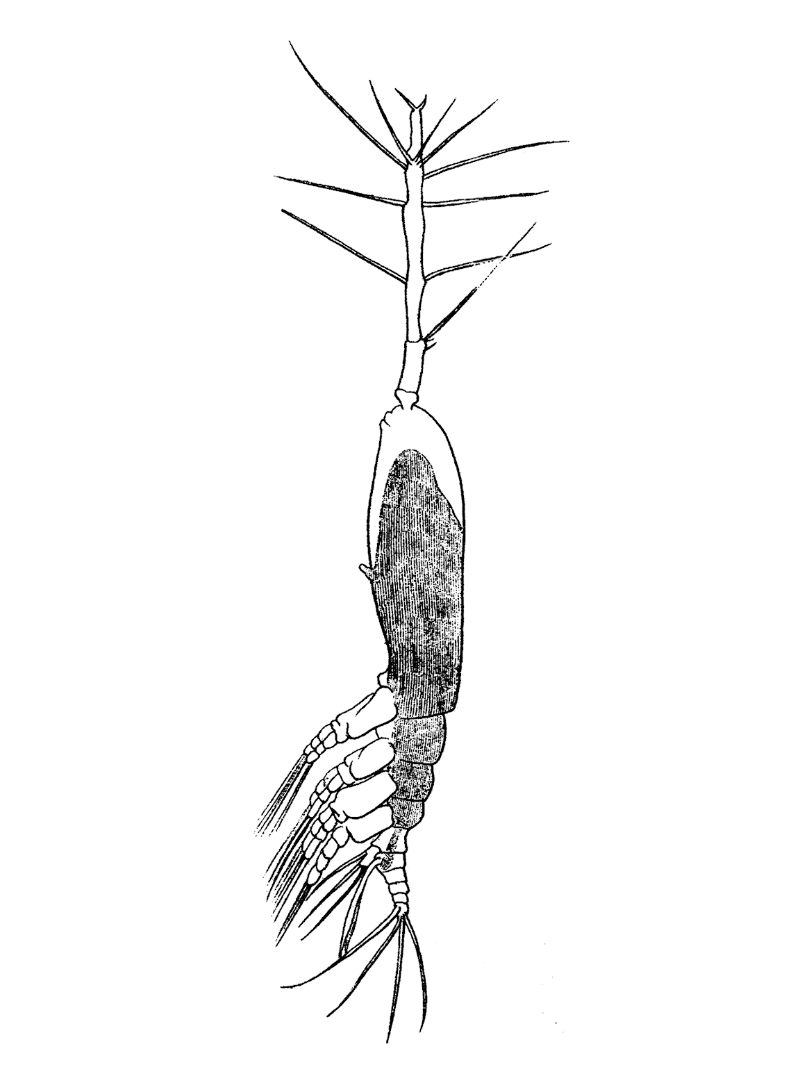 after Plate 46 from Giesbrecht, Wilhelm. (1892). Systematik und faunistik der pelagischen copepoden des golfes von Neapel und der angrenzenden meeres-abschnitte, von d' Wilhelm Giesbrecht. Mit 54 tafeln in lithographie. Hrsg. von der Zoologischen station zu Neapel.